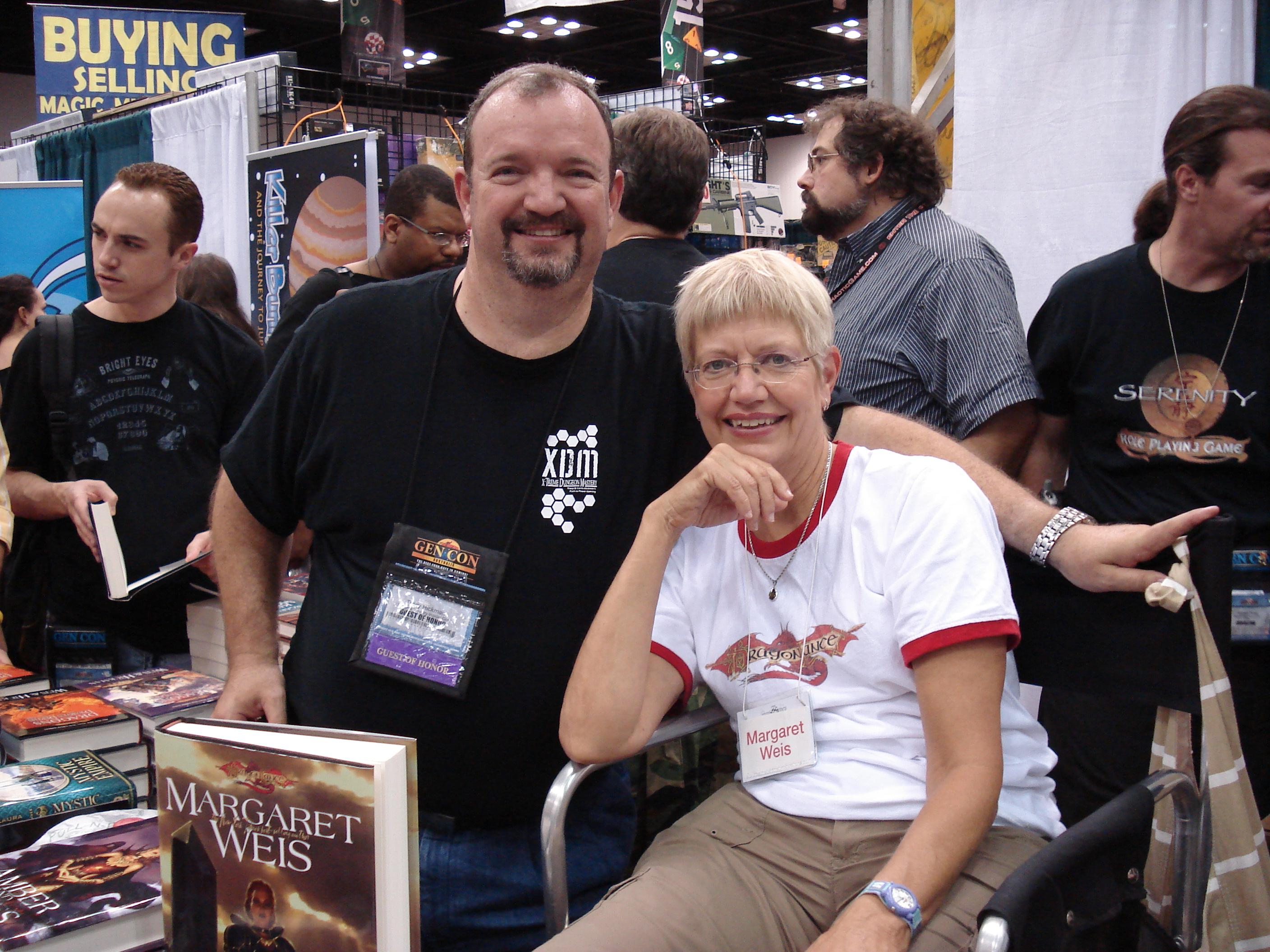 Tracy Hickman and Margaret Weis in the exhibit hall at Gen Con 2008.